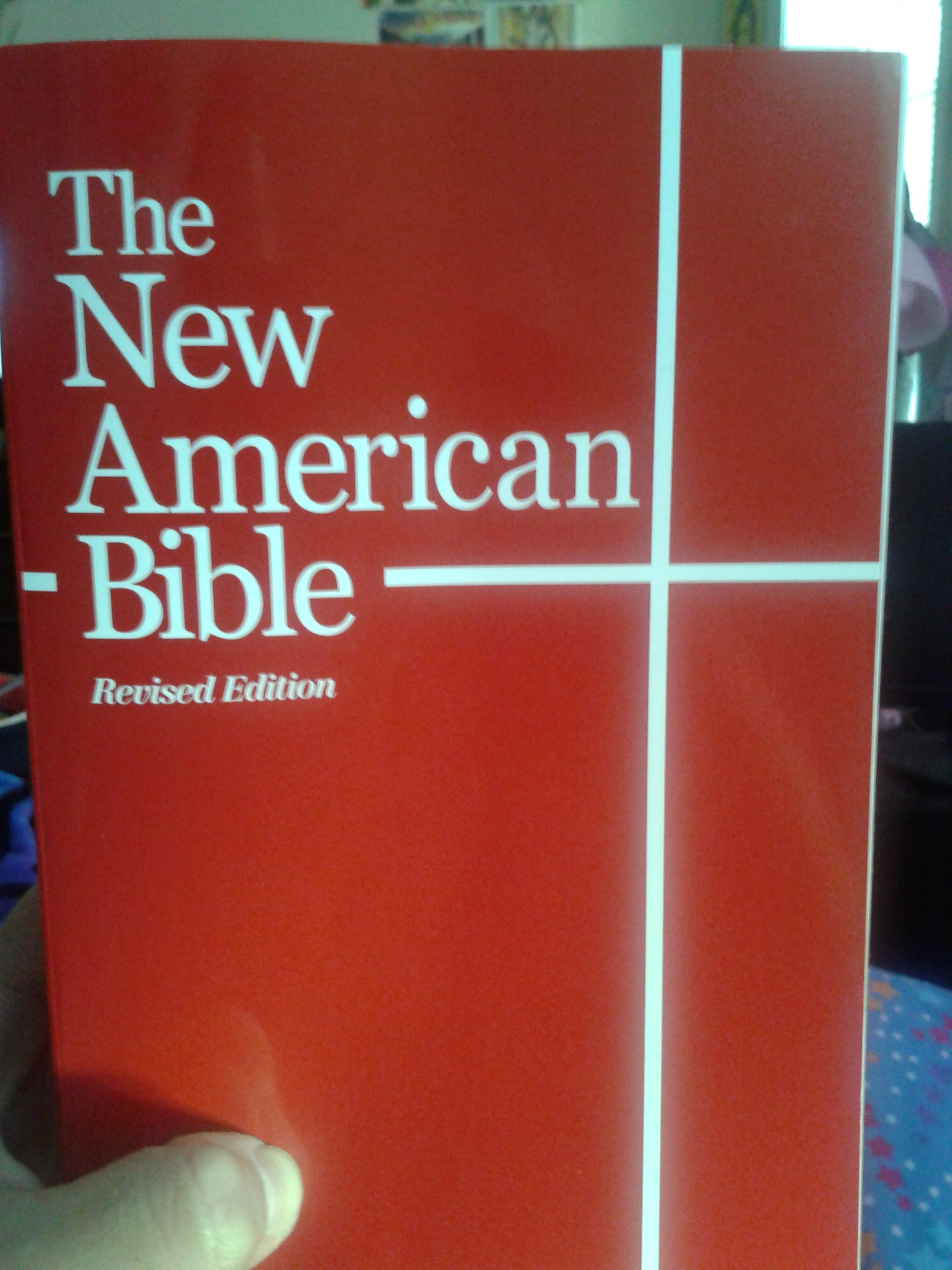 a 2014 NAB RE